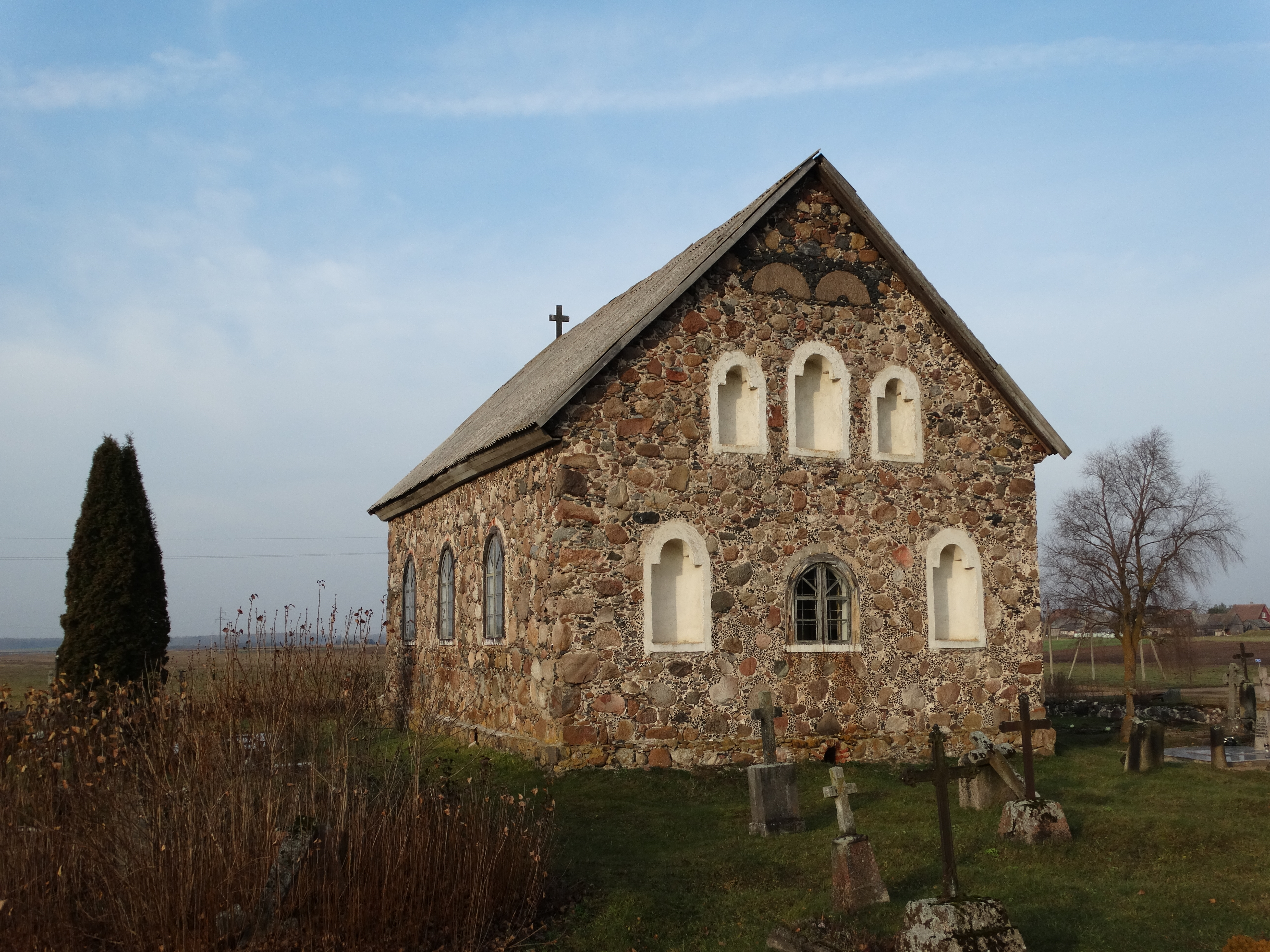 Chapel in Skrebiškiai, Biržai district, Lithuania